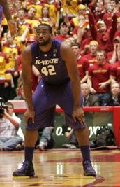 Tipoff: Iowa State v. Kansas State